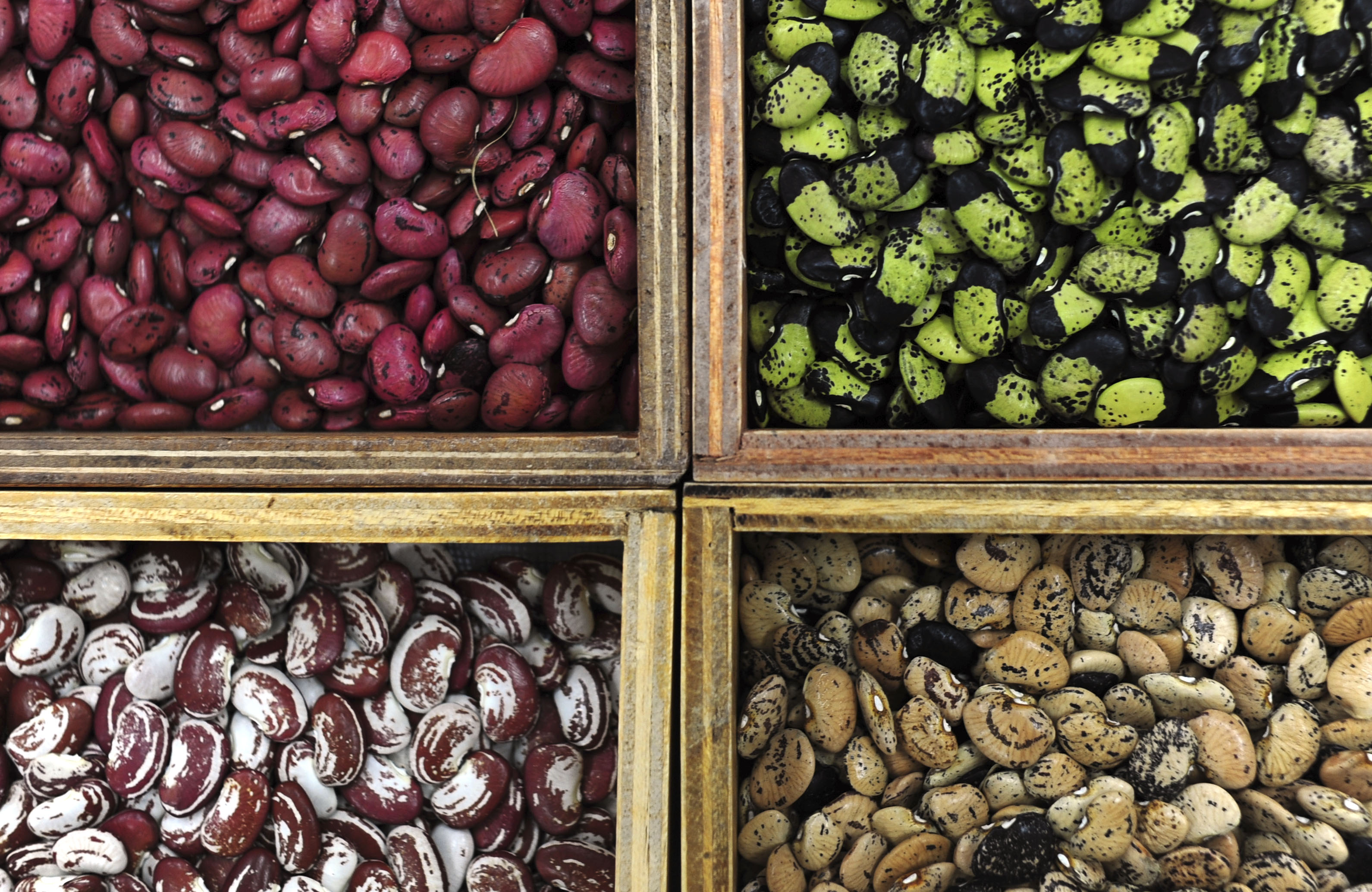 Beans at the CIAT gene bank in Colombia, which has just sent its latest consignments of seeds for conservation at the Global Seed Vault in Svalbard, Norway